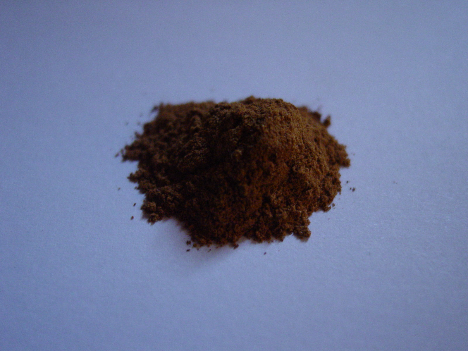 Kaneelpoeder Ceylon cinnamon powder .